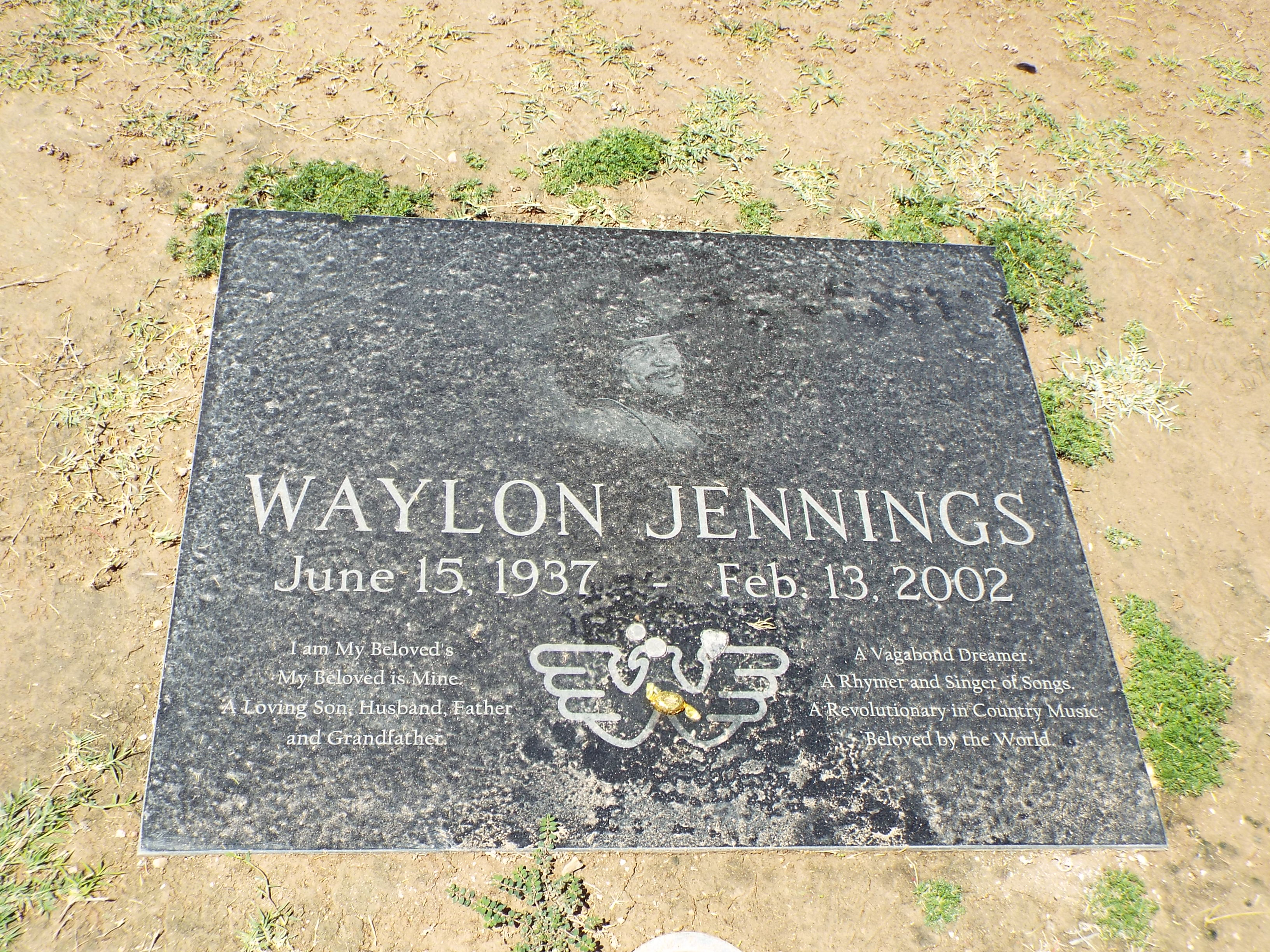 Grave site of Waylon Jennings (1937-2002). Jennings was an American singer, songwriter, musician, and actor. Jennings gave up his seat on the ill-fated flight that crashed and killed Holly, J. P. Richardson, Ritchie Valens, and pilot Roger Peterson. In 2001, he was inducted into the Country Music Hall of Fame.